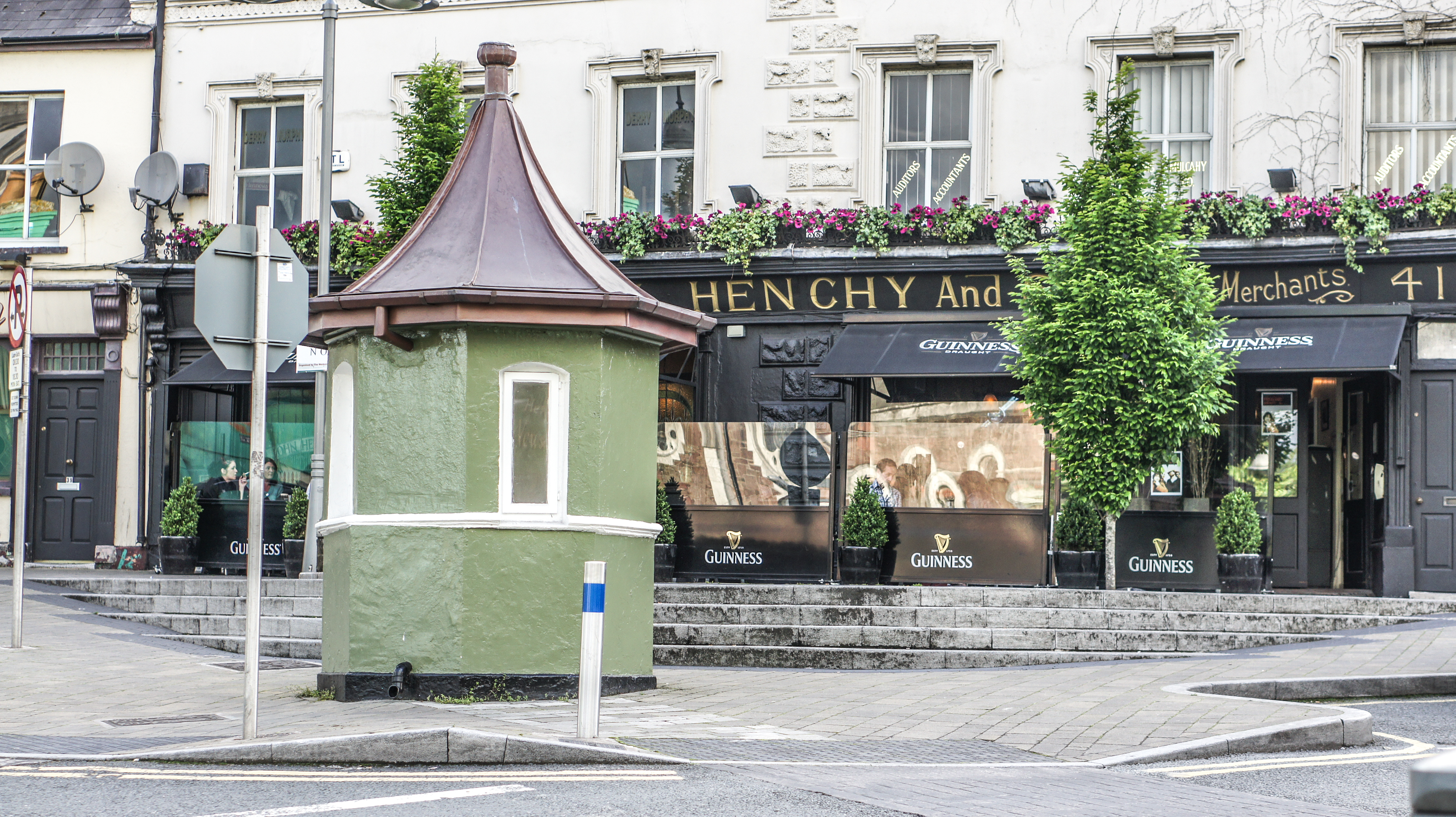 Montenotte, Cork, Ireland